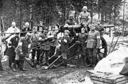 1918 Finnish Civil War: White Guards heavy artillery in Rautu.